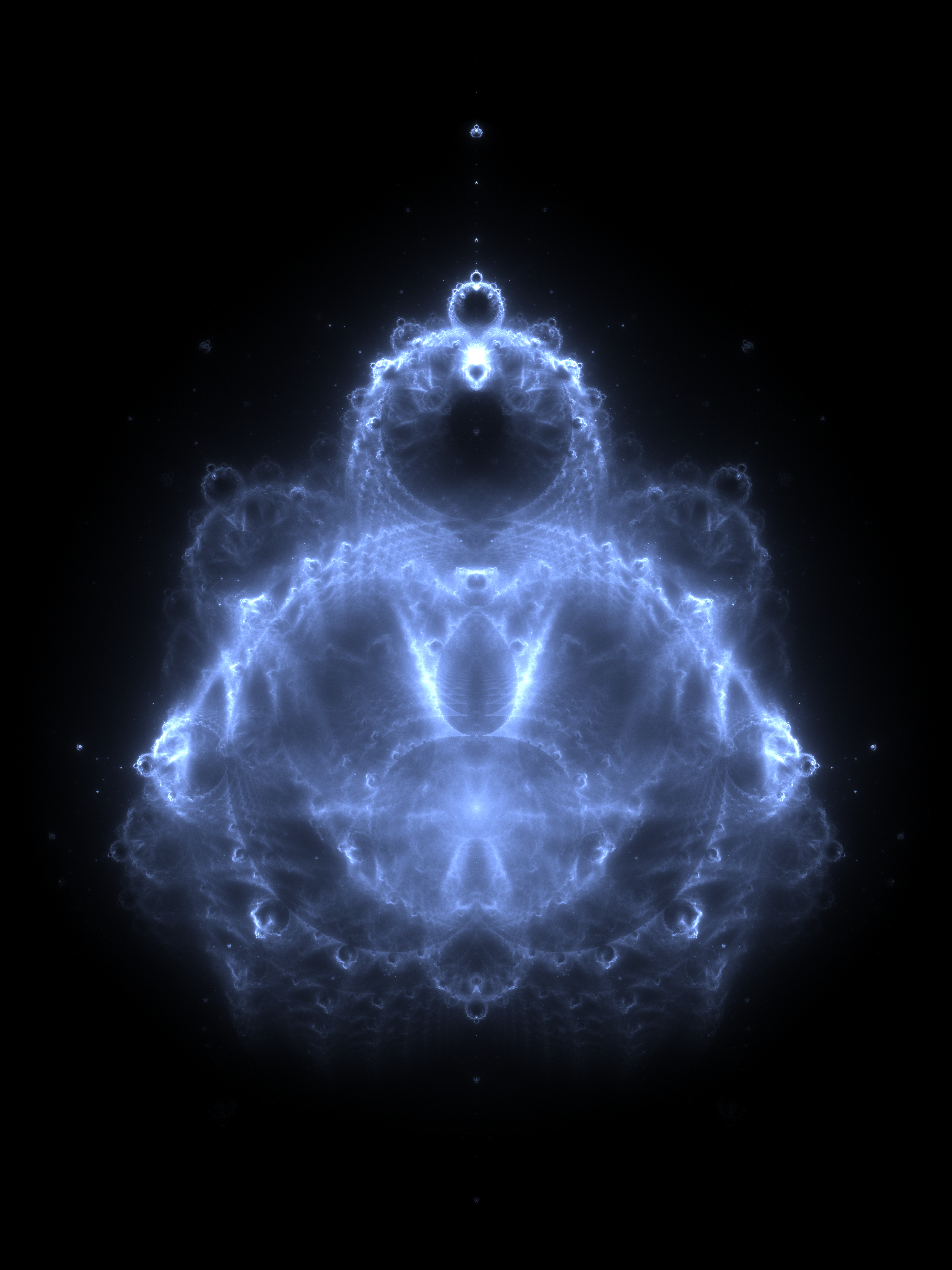 A rendering of Buddhabrot iterated to 20,000 on all three channels R, G, and B. This was generated with this C program by Evercat, plus useful fixes by Michael Pohoreski shown here.